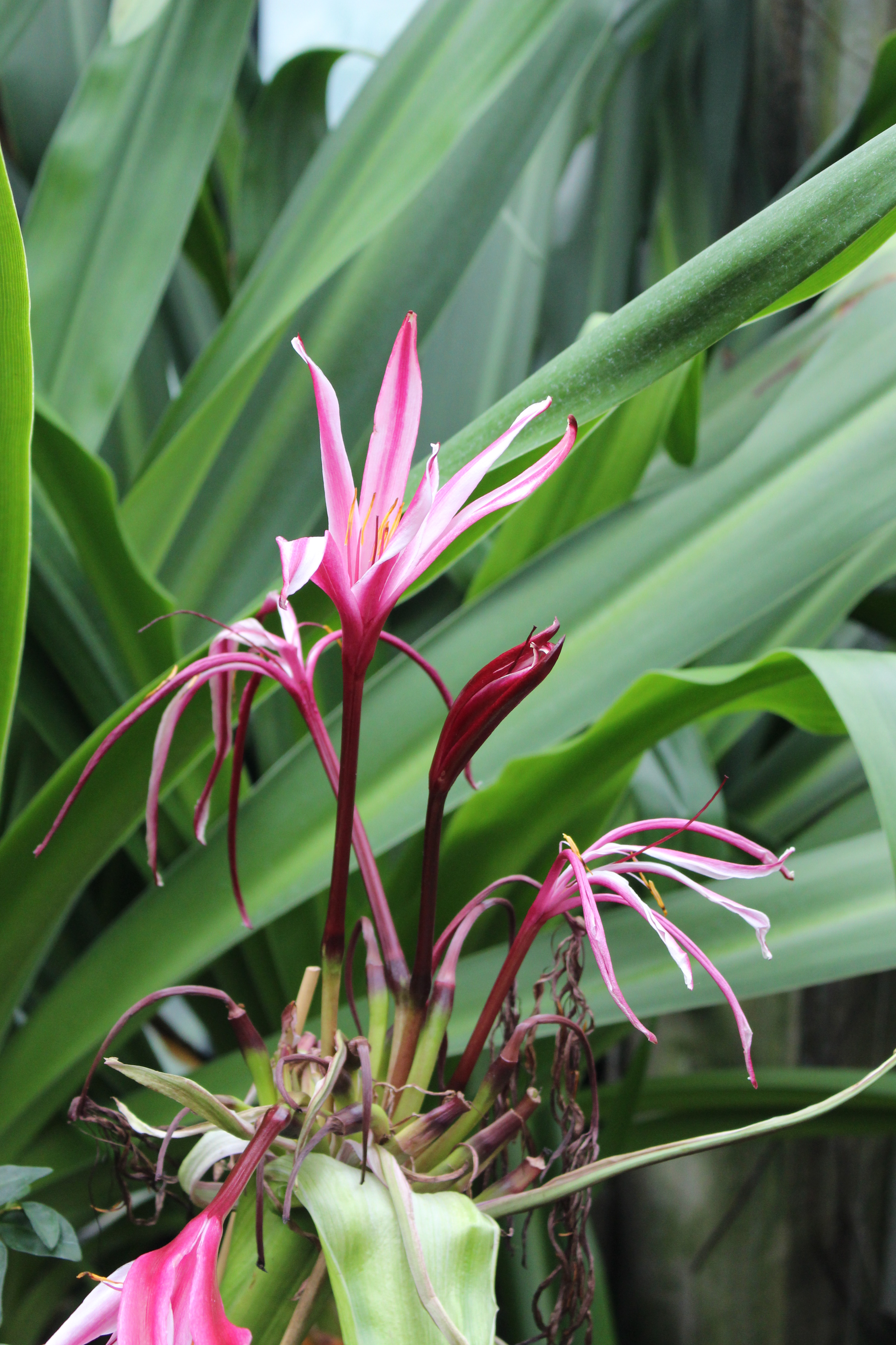 Crinum x amabile - syn: Crinum augustum (according to the The Plant List) in Kew Gardens, England.